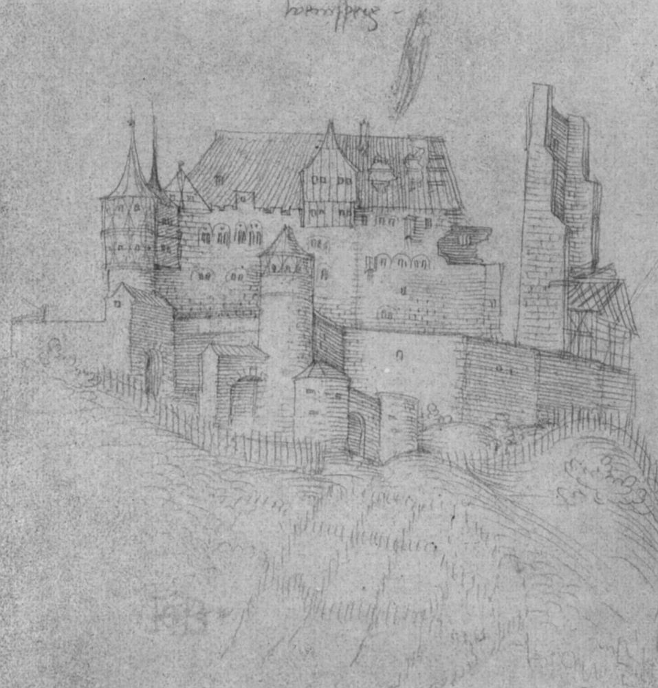 Castle Weinsberg in 1515, drawn by Hans Baldung Grien in 1515